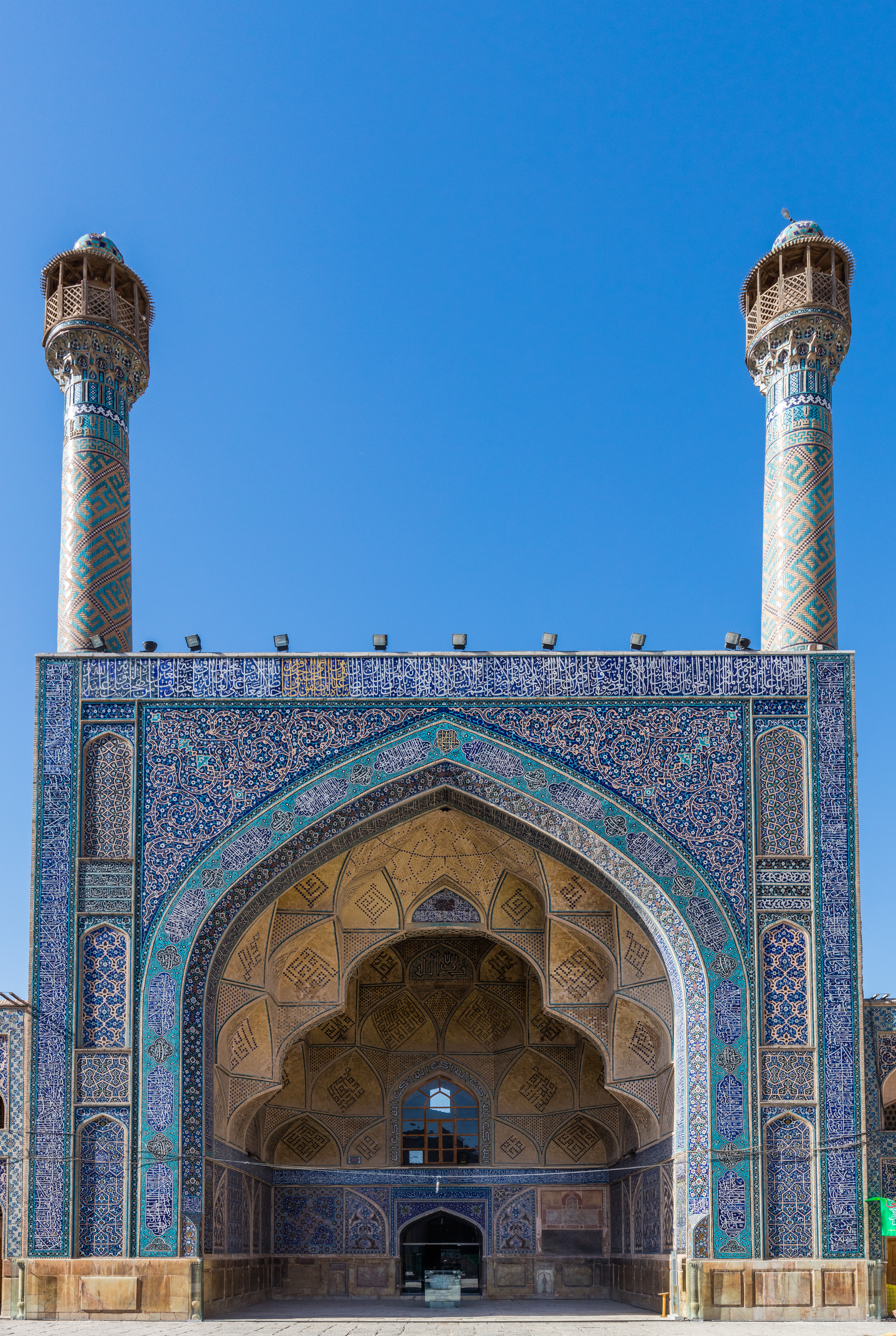 Jameh Mosque of Isfahan, Isfahan, Iran